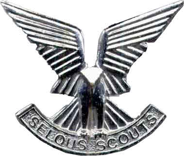 Photograph of the cap badge of the Selous Scouts regiment